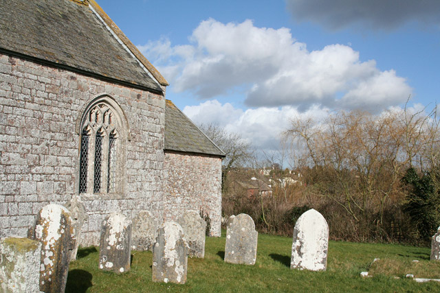 Clyst St Lawrence: the churchyard. Looking east towards the village, no more than a hamlet